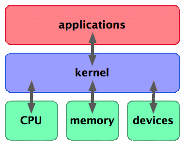 Created by Ka-Ping Yee specifically for the article Kernel (computer science).